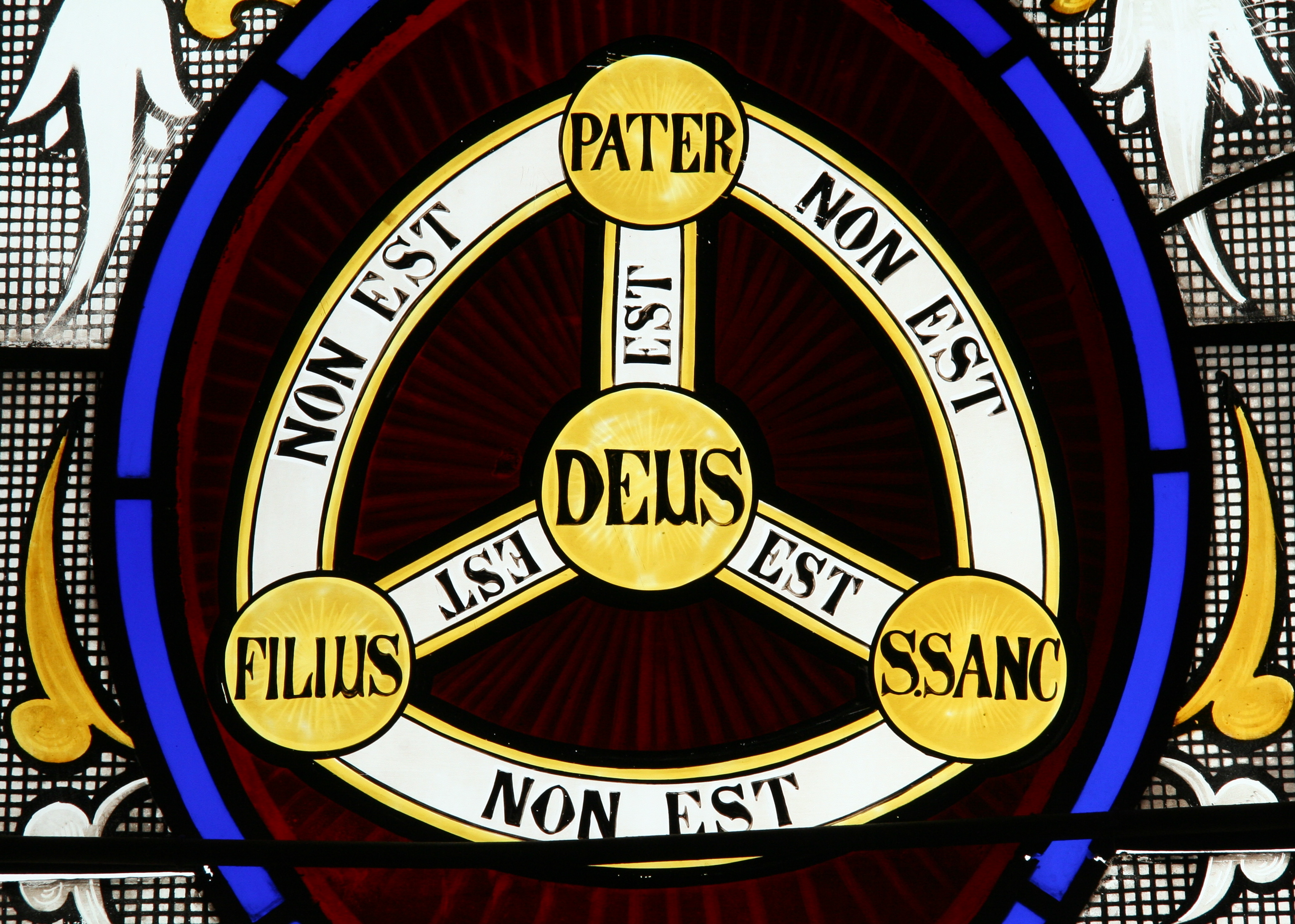 Detail of a stained glass window featuring the Scutum Fidei (Shield of the Trinity) installed in Grace Episcopal Church soon after 1868 when the church was built in Decorah, Iowa